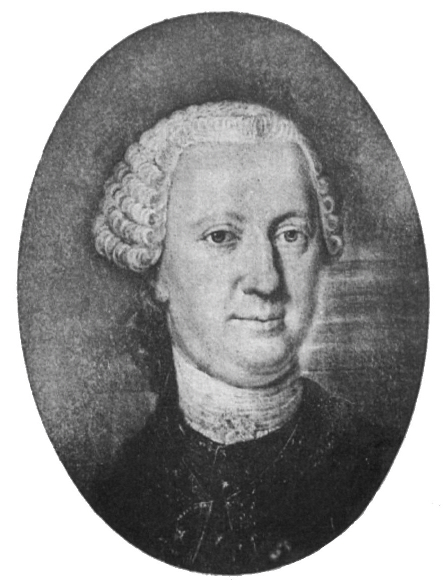 Daniel Gralath (1708—1767) German physicist and mayor of Danzig